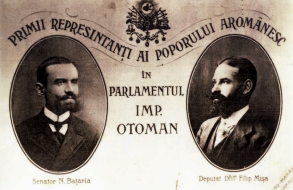 Nicoloae Constatin Batzaria and Filip Misa